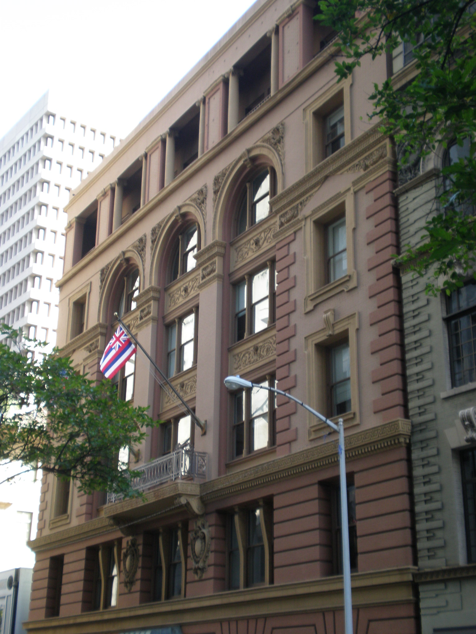 Stangenwald Building, 119 Merchant Street, Honolulu, Hawaii; built 1901, architect C.W. Dickey; restored 1980, architect James K. Tsugawa